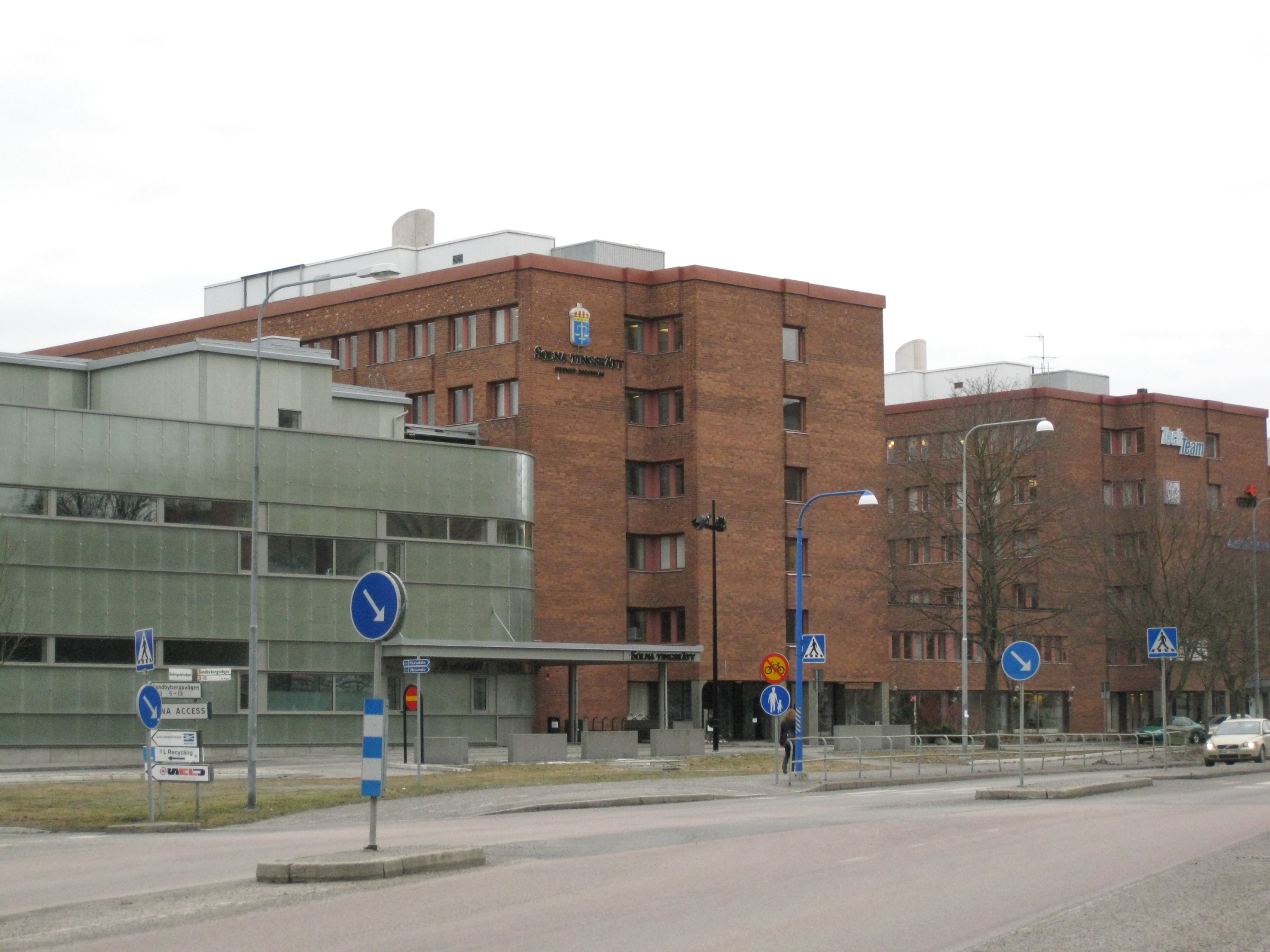 Solna district court (tingsrätt), Solna, Sweden.